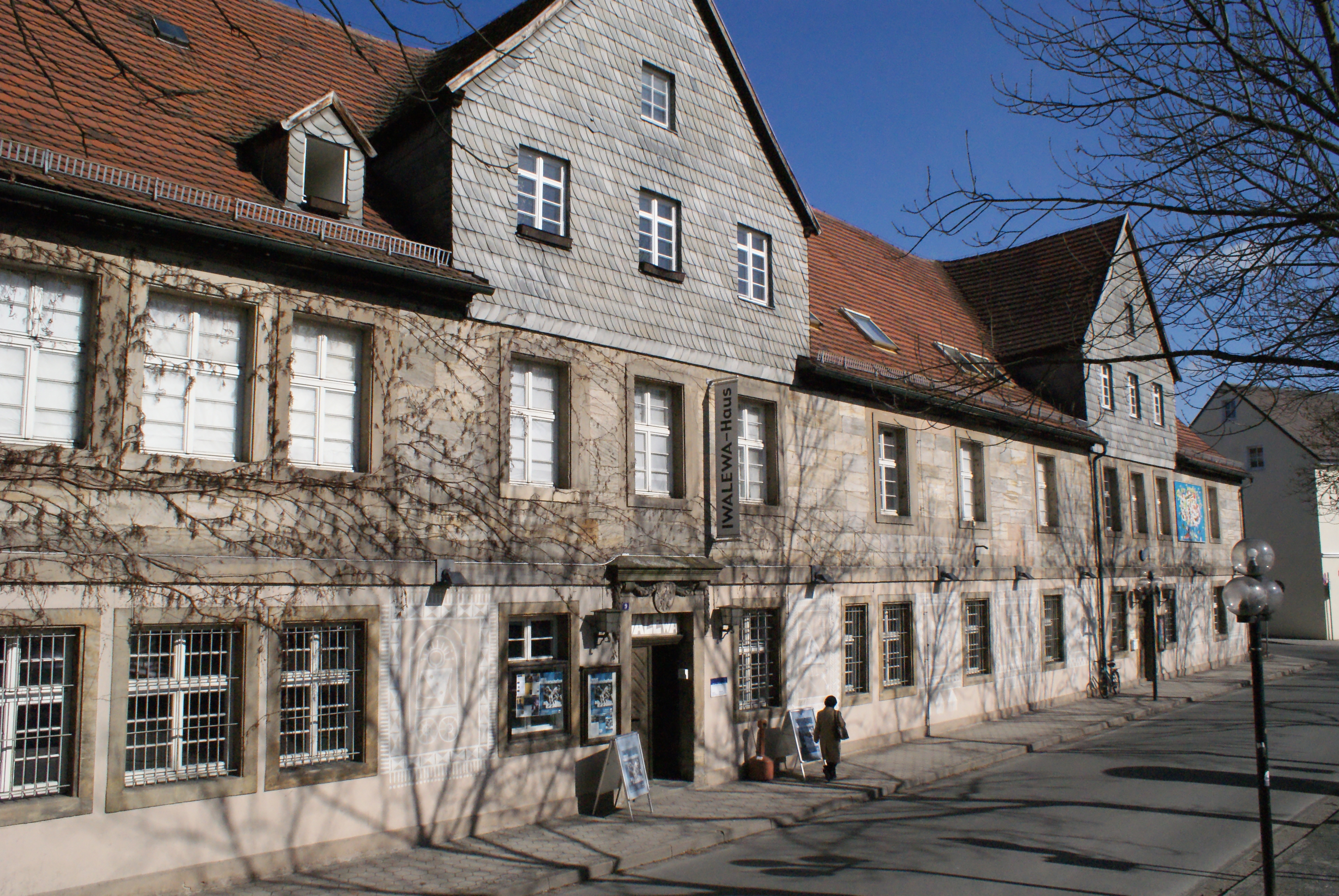 Front of the former Iwalewa-Haus building at Münzgasse 9, 95448 Bayreuth